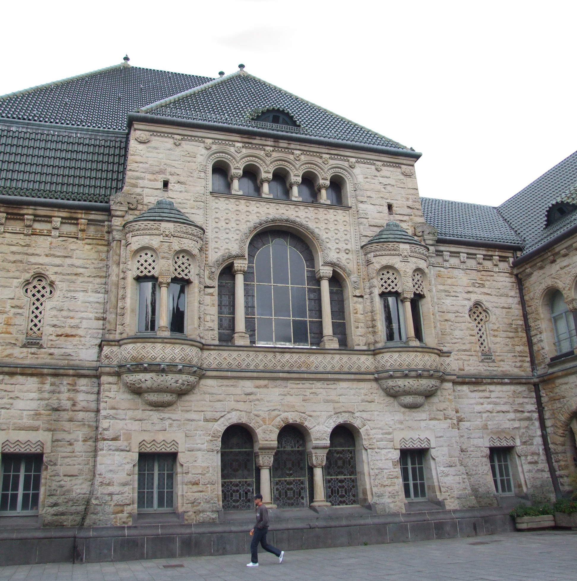 Railway Station, Metz, FRANCE